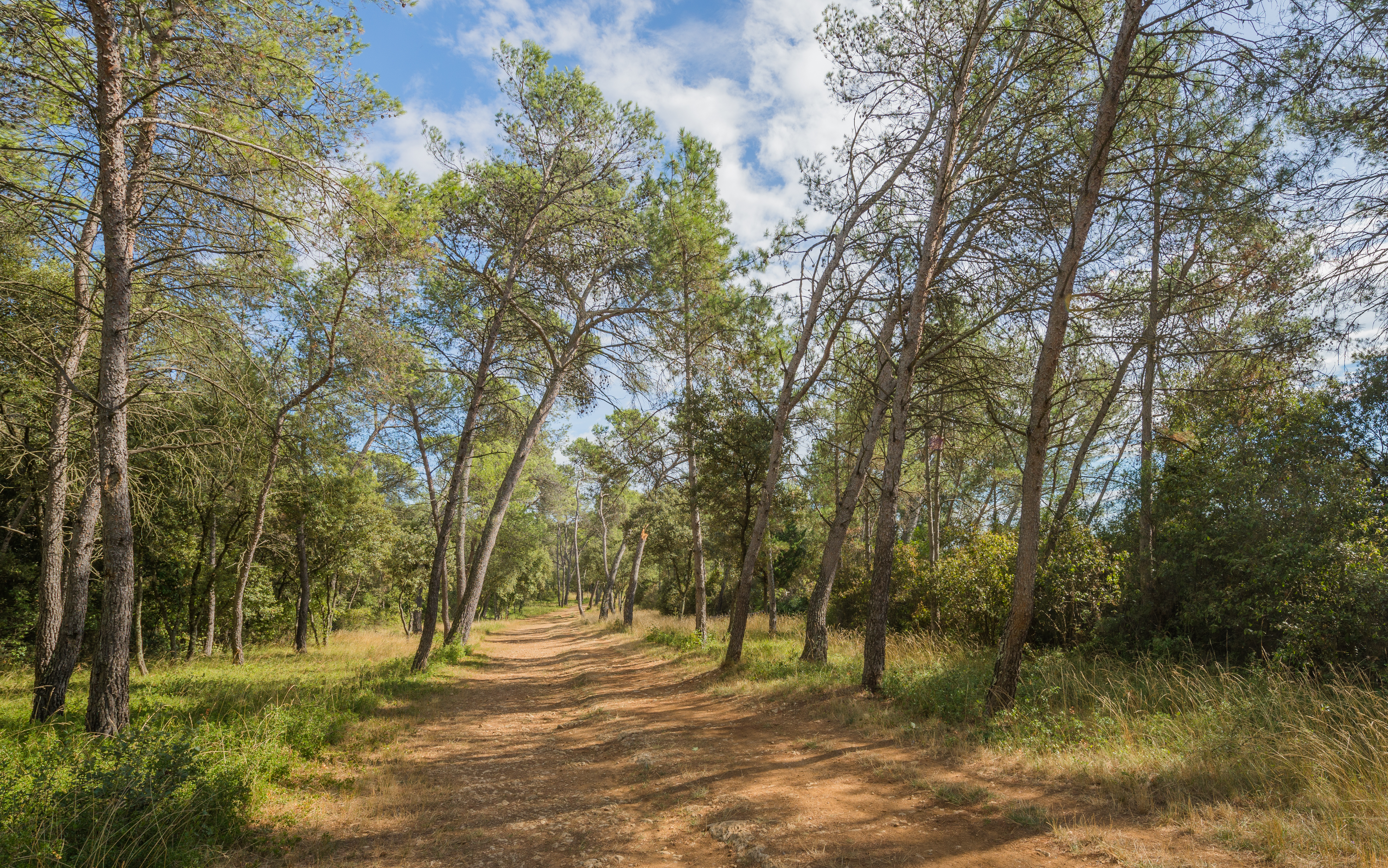 Pinus halepensis forest in a wood called Les Pins, Castries, Hérault, France.